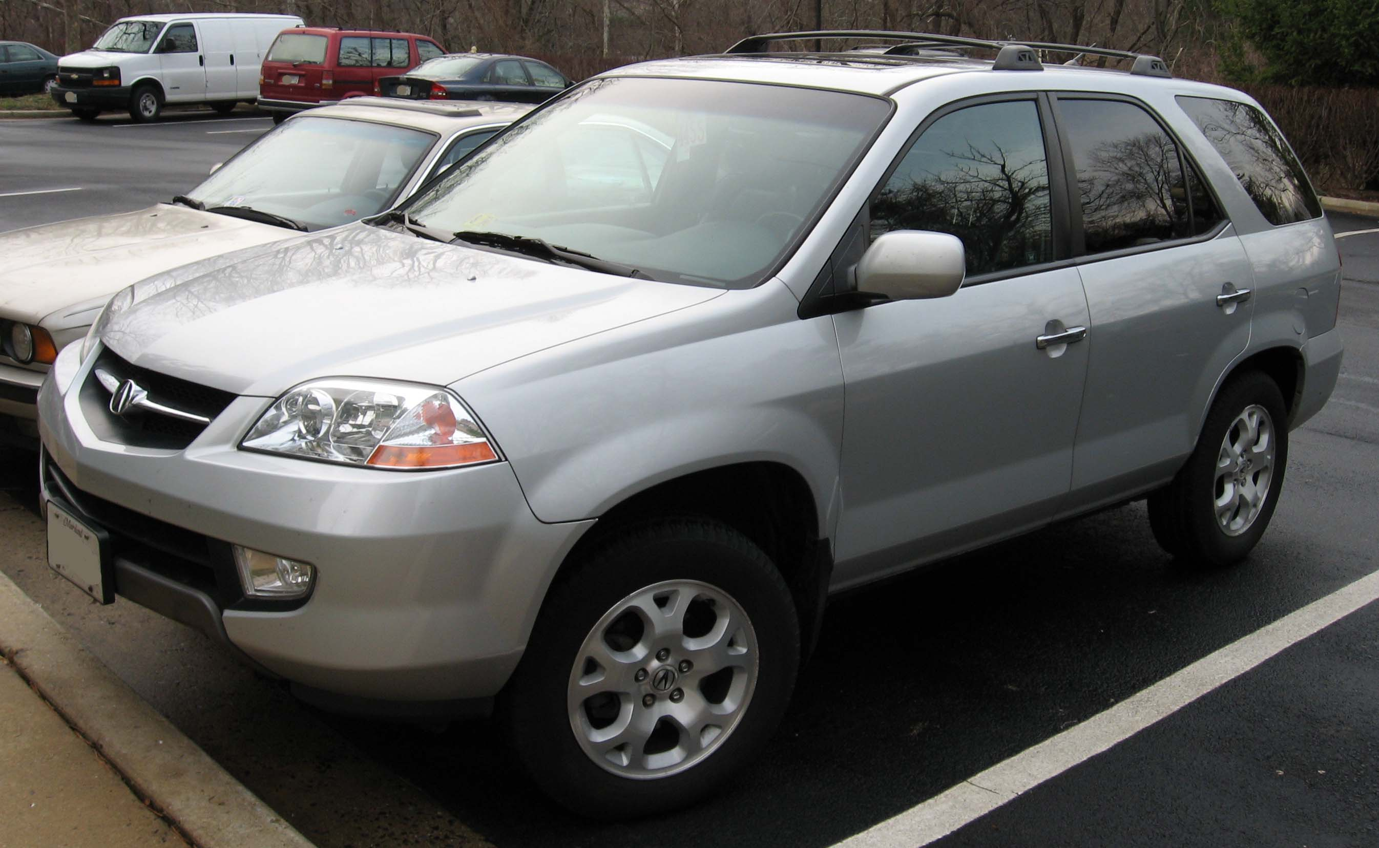 2001-2003 Acura MDX photographed in USA.